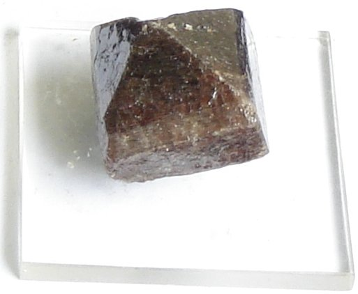 One single brown zircon crystal (2x2 cm) (Origin:Peixes, Goiás, Brazil)